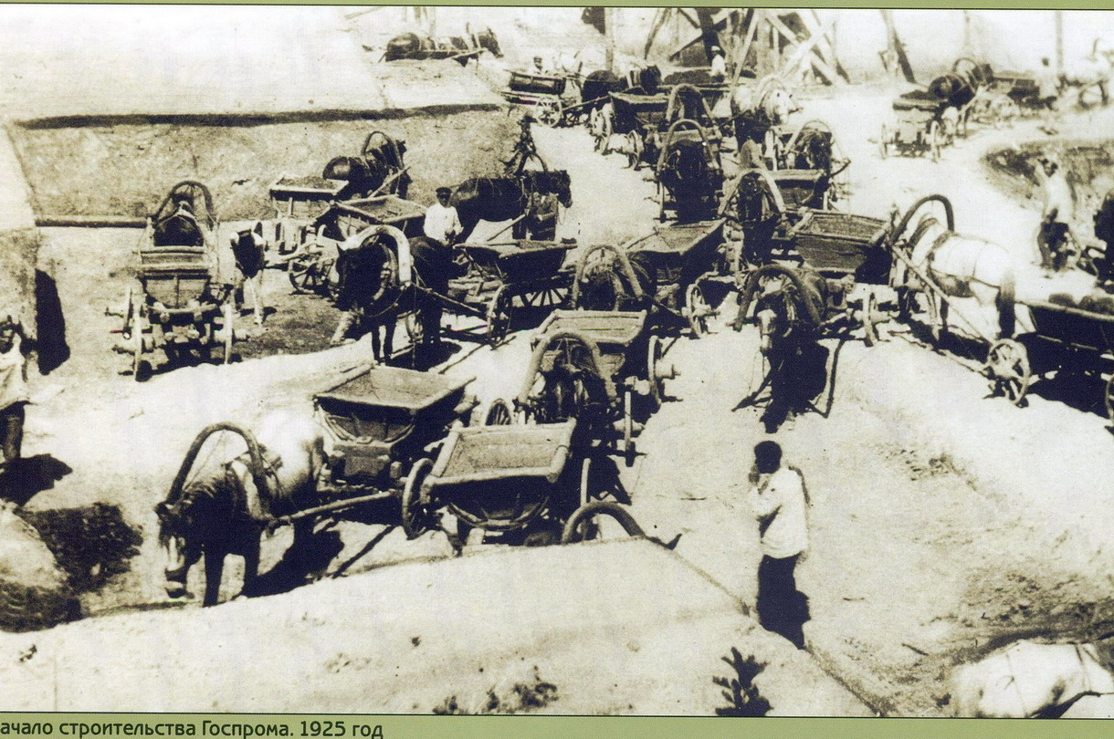 Gosprom to Build. Photo taken in Kharkov.